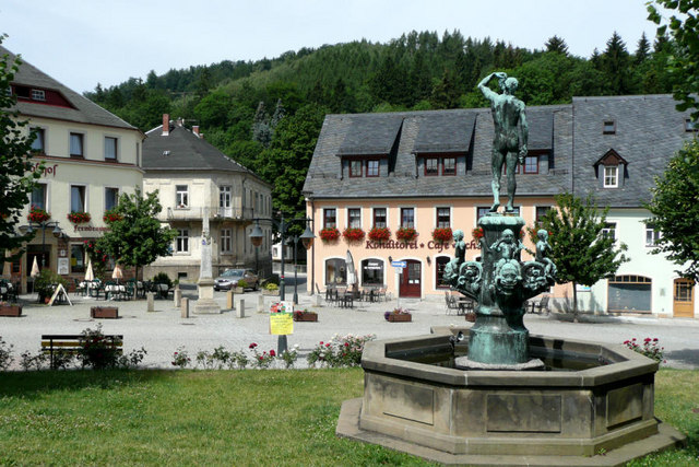 This image shows the market place of Bad Gottleuba.